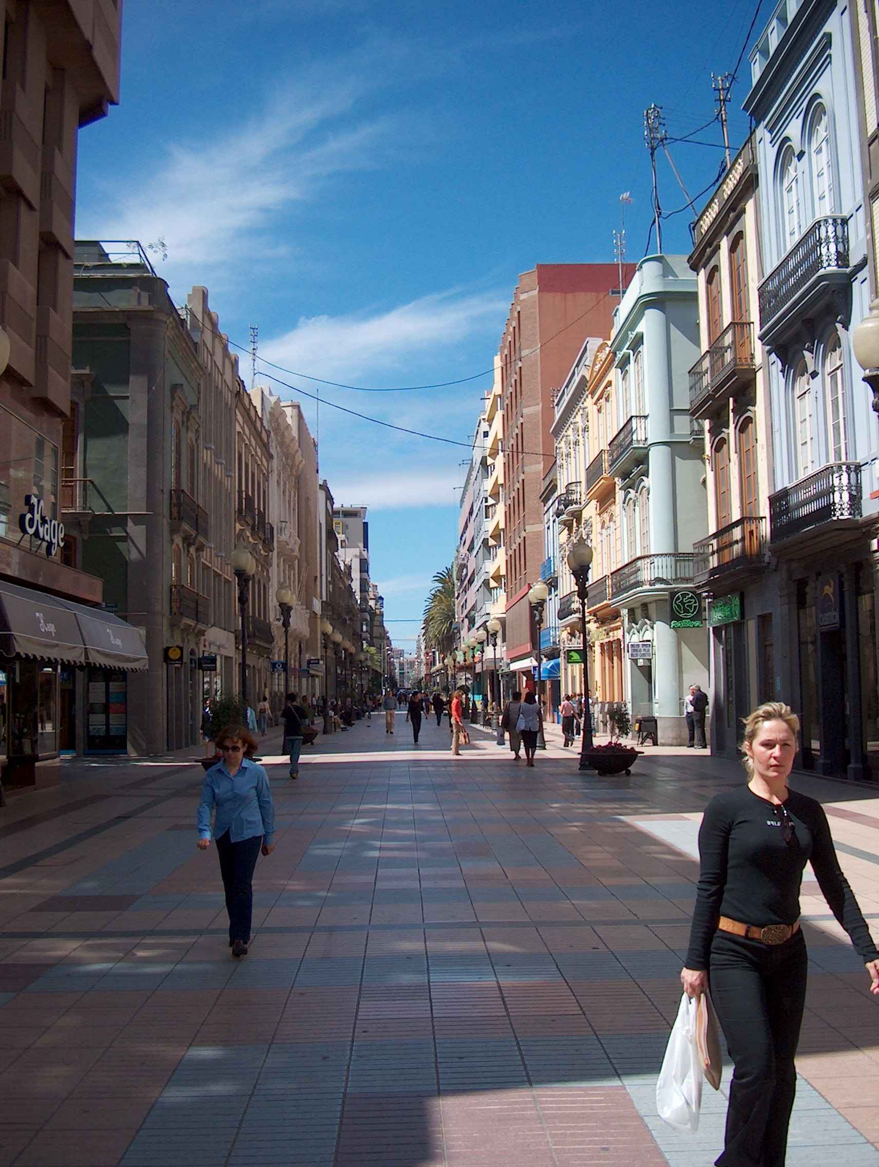 Triana Major Street. Las Palmas de Gran Canaria (Gran Canaria). Canary Islands, Spain.